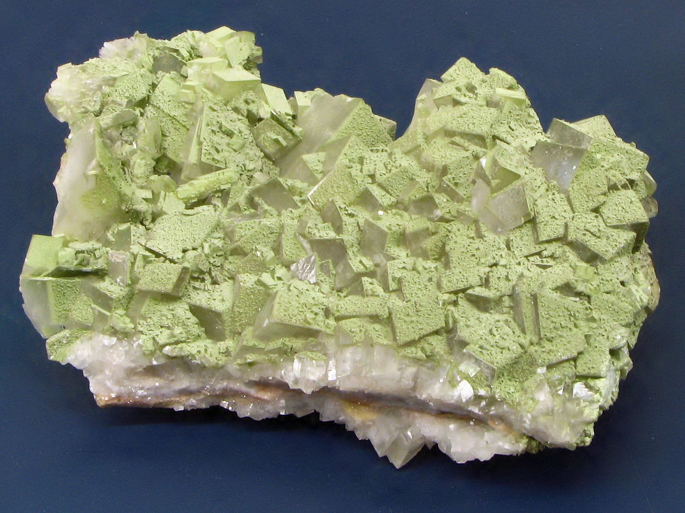 Duftite on Calcite - Locality: Tsumeb, Namibia - Exposed in the Mineralogical Museum Kupferdreh, Essen, Germany